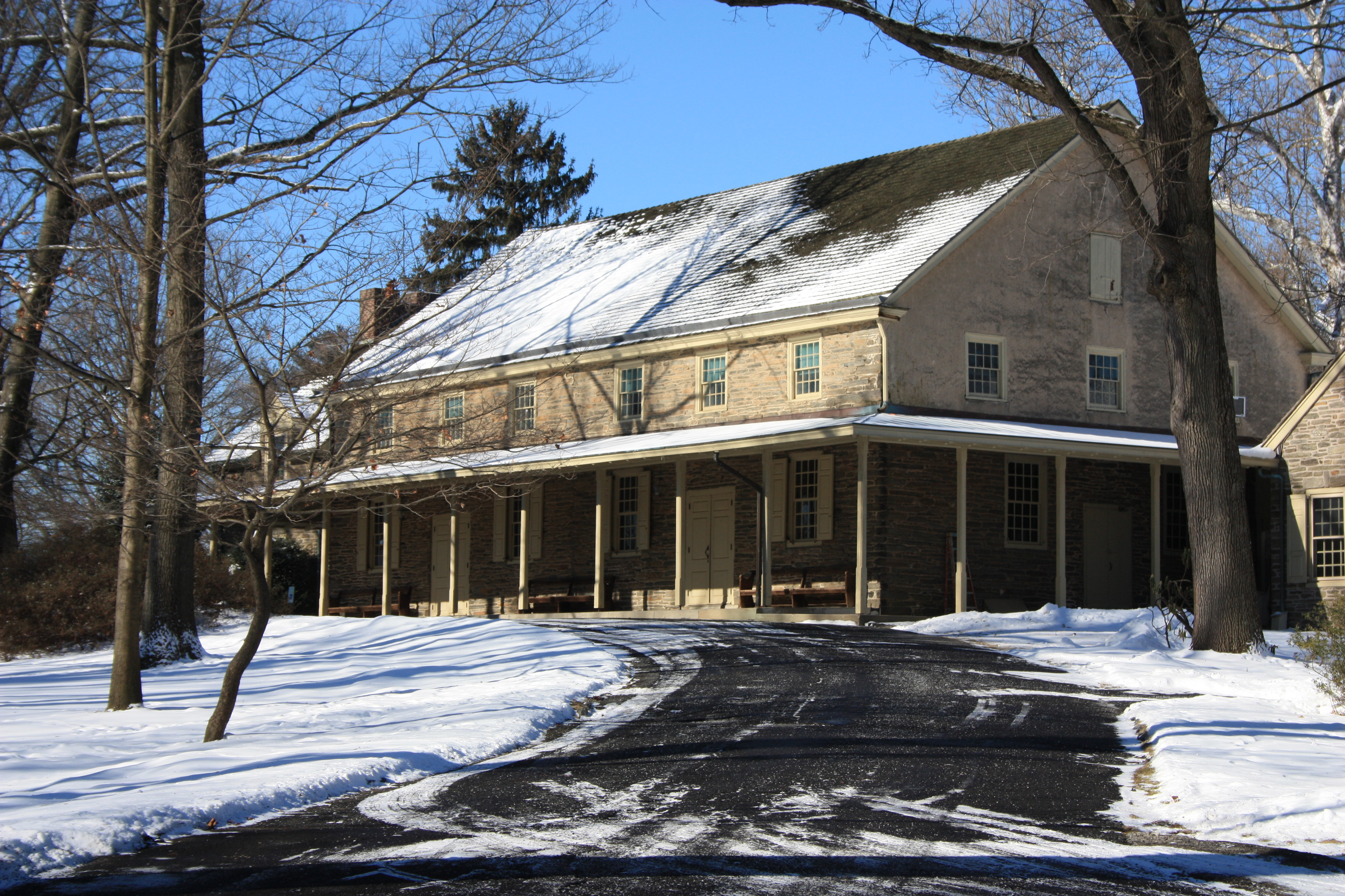 Abington Friends Meeting House, meeting (congregation) organized in 1683, building contructed in 1786. Located at 520 Meeting House Rd., Jenkintown, Montgomery County, Pennsylvania (NW of Phildelphia) 40.0939°N 75.1182°W